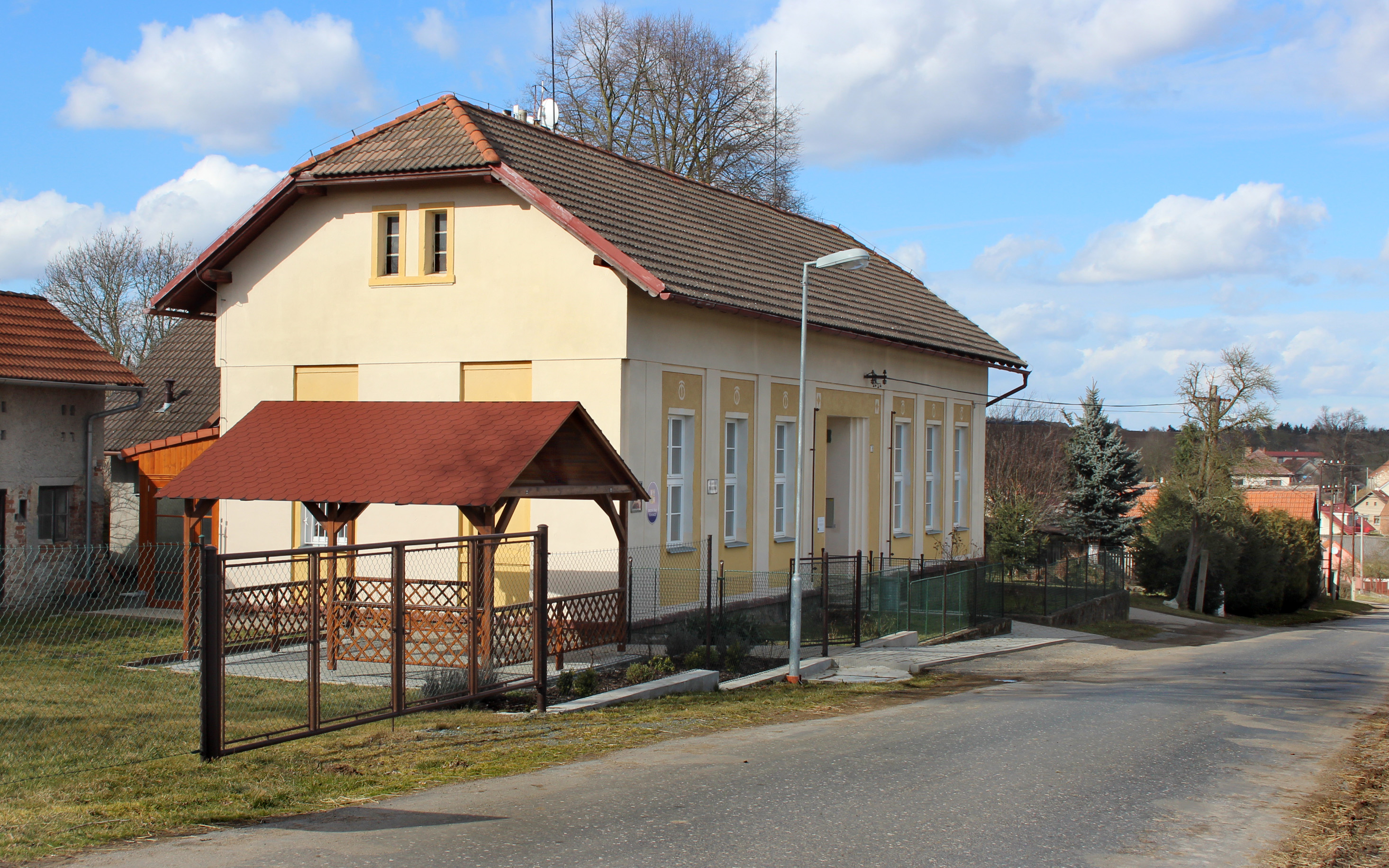 Municipal office in Tichonice, Czech Republic.